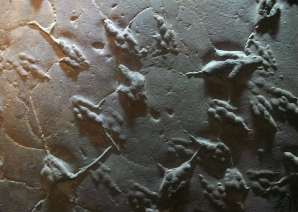 An assemblage of fossil footprints from the ichnogenus Grallator at the Amherst Museum of Natural History. (See: Connecticut River Valley trackways)